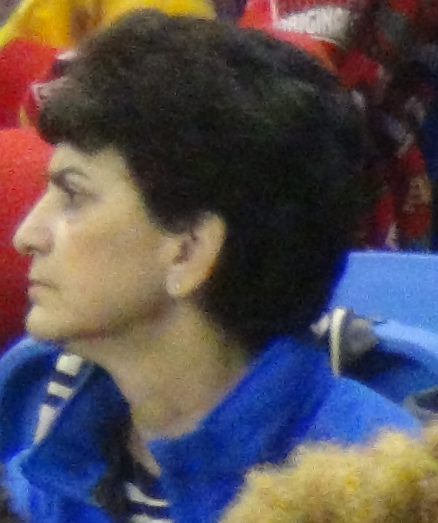 San Jose State University president Mary Papazian attends a basketball game on campus on February 7, 2017.